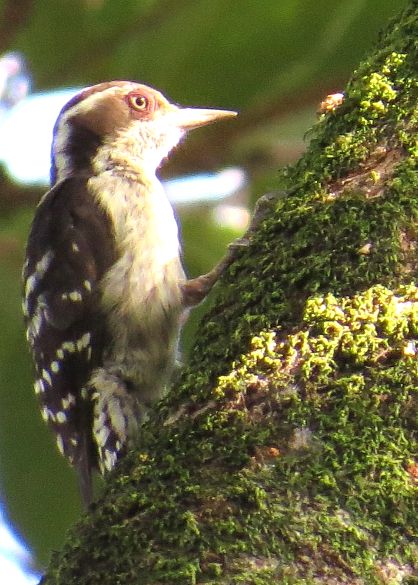 Brown-capped woodpecker or Indian pygmy woodpecker (Picoides nanus)